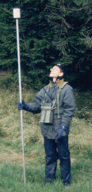 Proton magnetometer; the sensor liquid and coil are in the small cyclinder at the top of the rod, the control unit is carried by the geophysicist on the belt